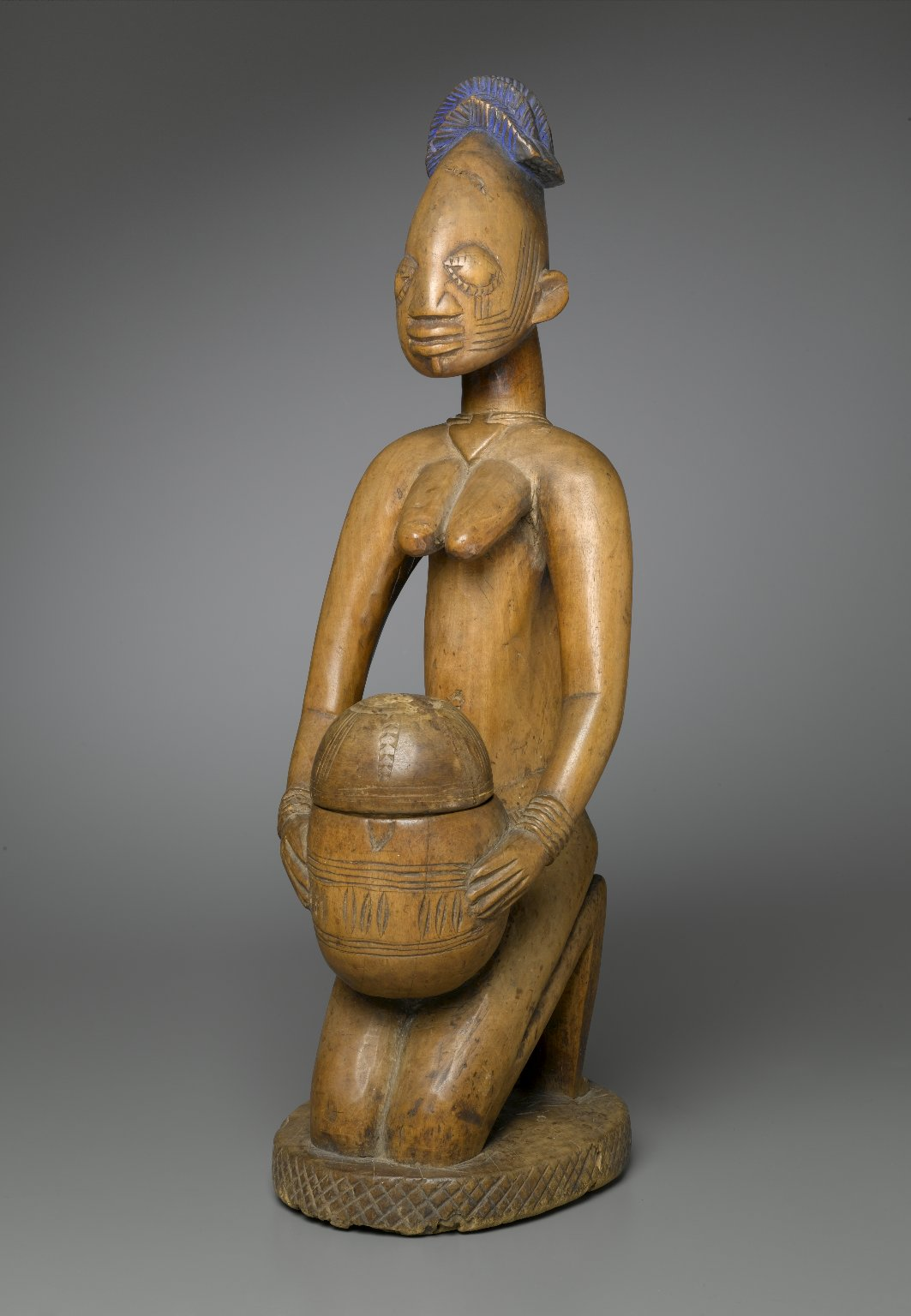 Kneeling woman figure, holding kola nut bowl, in light colored wood, with coiffure in blue pigment. Necklace with triangular shaped pendant suspended on front and back. Five bracelets on each arm, and a hip girdle. Elongated figure, with hips resting on feet, entire figure on oval base with cross hatch pattern. Sleek and well balanced. Five tiered semi-circles make up coiffure. Face has scarification patterns, eyes also emphasized with geometric patterning. CONDITION: Very good. Crack at base, check up the back and on right side of figure. Lid of calabash bowl (removable) was repaired.